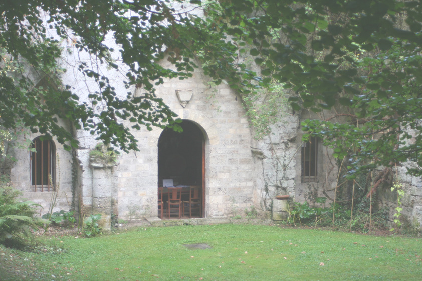 XIIIth century façade of the ancient Abbey of Grestain in Normandy which was founded in 1050 by Herluin of Conteville and Herleva the mother of William Duke of Normandy and King of England